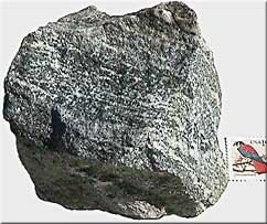 Amphibolite